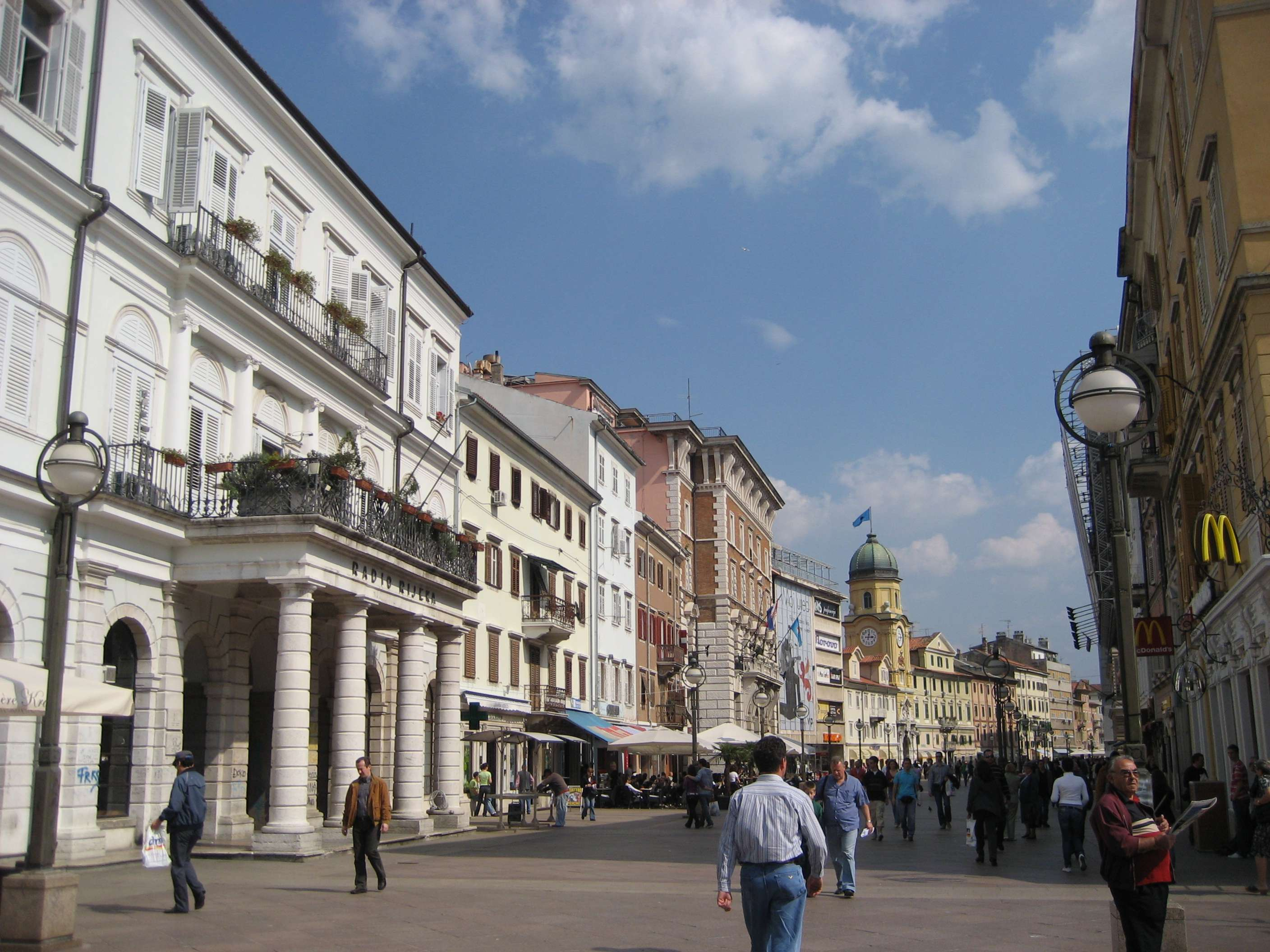 Rijeka, Pedestrianstreet